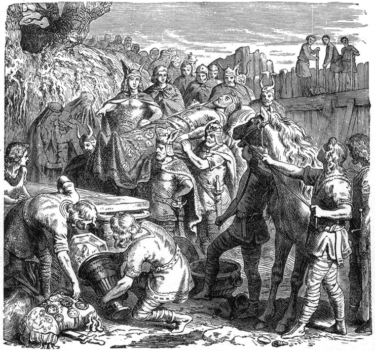 Captioned as "The burial of Alaric in the bed of the Busentinus". Drawing of Alaric I being buried in the bed of the Busento River.